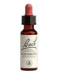 Bach flower remedies